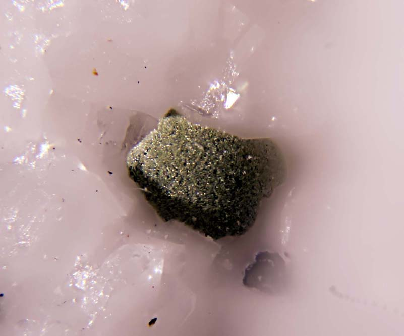 Dark green globular aggregates of tungstibite crystals from the type locality (Clara Mine, Wolfach, Black Forest, Baden-Württemberg, Germany) and one of the only three localities known worldwide. Tungstibite is a very rare tungsten-antimony mineral.